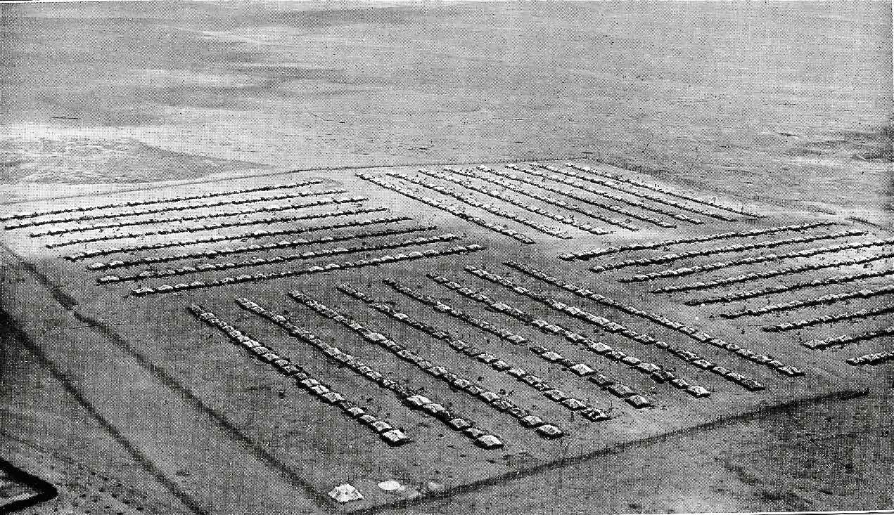 The Italian Fascist concentration camp of El Abiar (Libya) with approx. 3.123 Libyan prisoners between 1930 and 1933. compare Enzo Santarelli, et al: Omar al-Mukhtar: The Italian Reconquest of Libya. Darf 1986, p. 100.